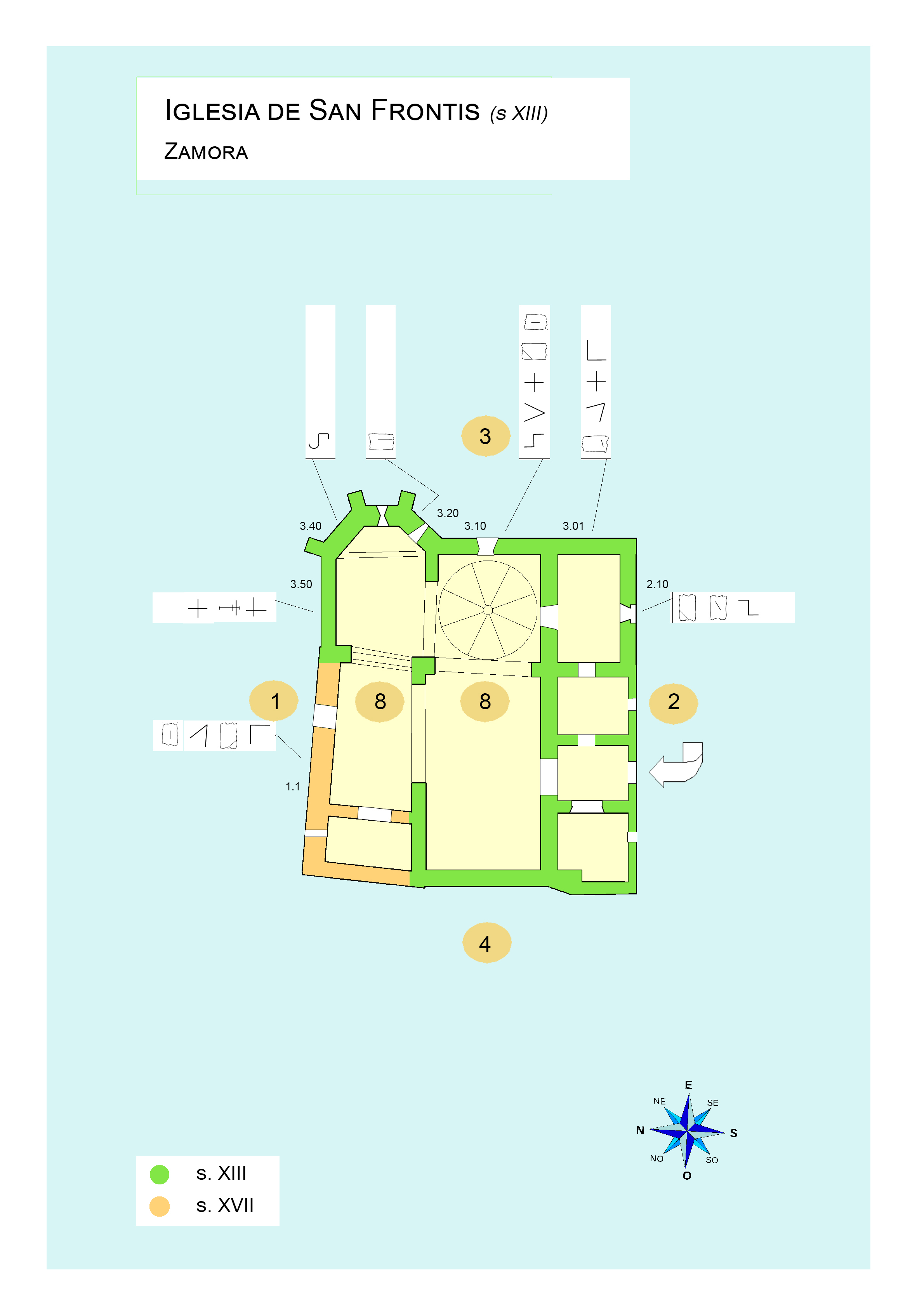 Plan appro. and stonecutter marks in San Frontis church, Zamora, Spain, romanesque s. XIII.